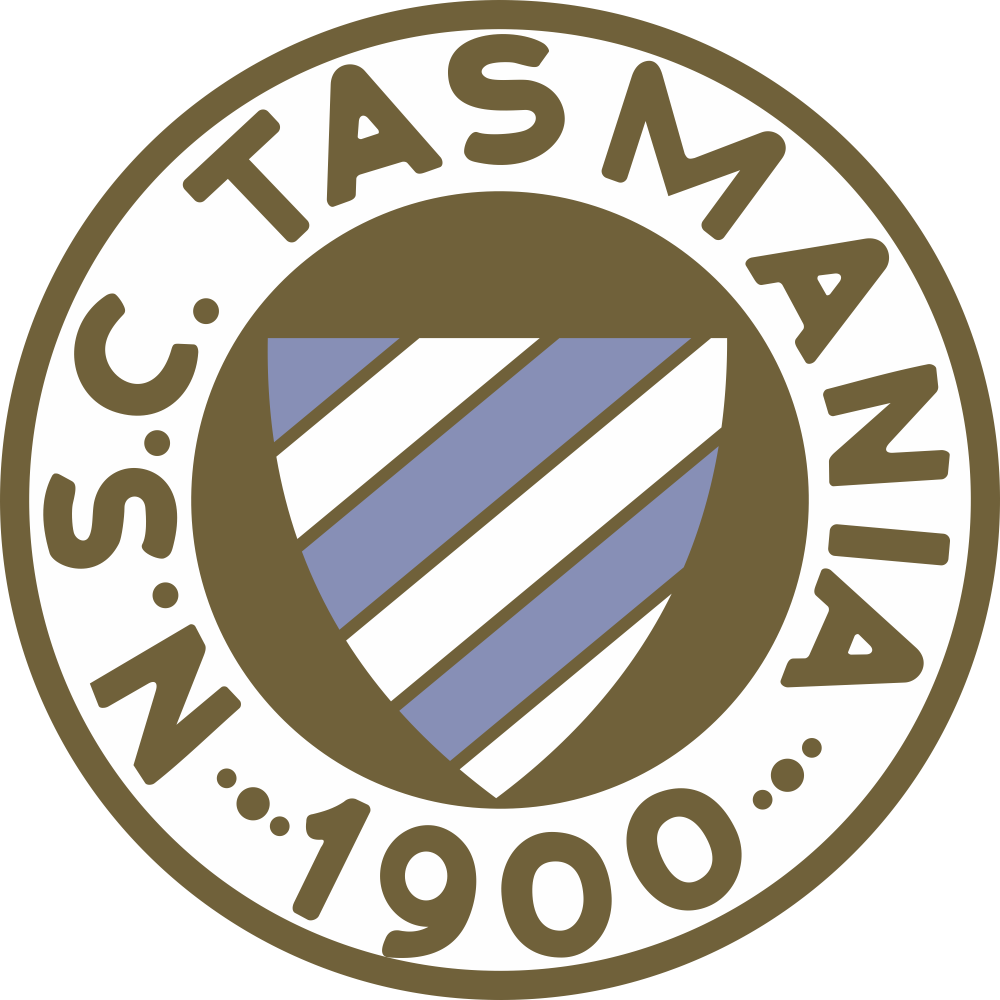 Logo from Neuköllner SC Tasmania (1912-1945)